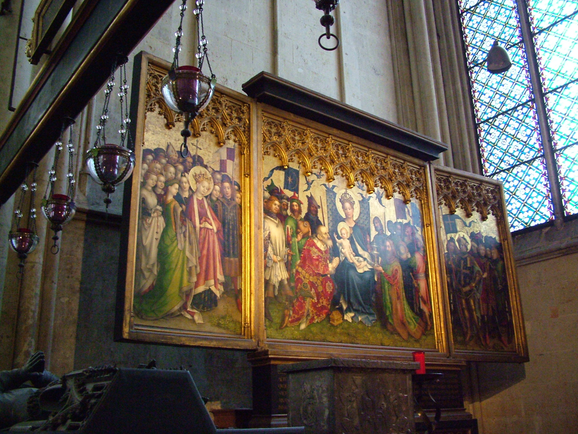 This is a photograph of an architectural monument. This is a photograph of an architectural monument.